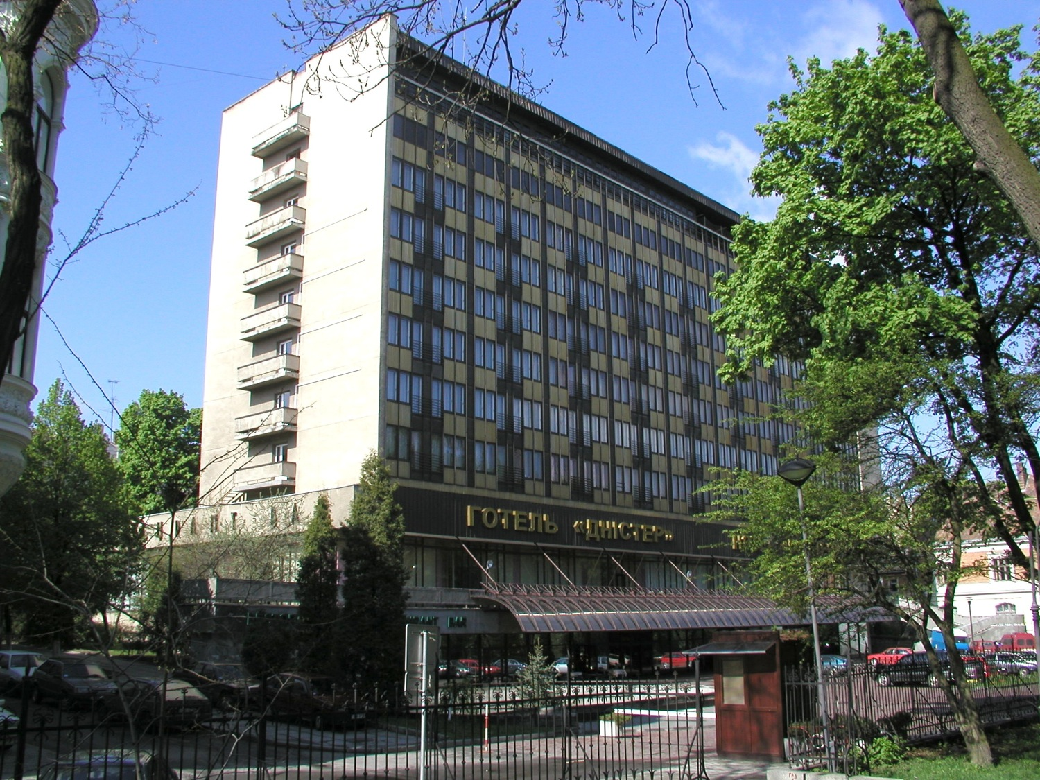 Hotel Dnister in Lviv (2002)